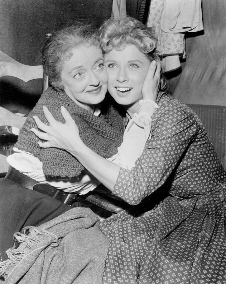 Photo of Bette Davis and Cindy Robbins from the western television series Wagon Train. This was Davis' first television appearance in a western series.